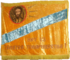 Colour of the Ussuri Cossack troops